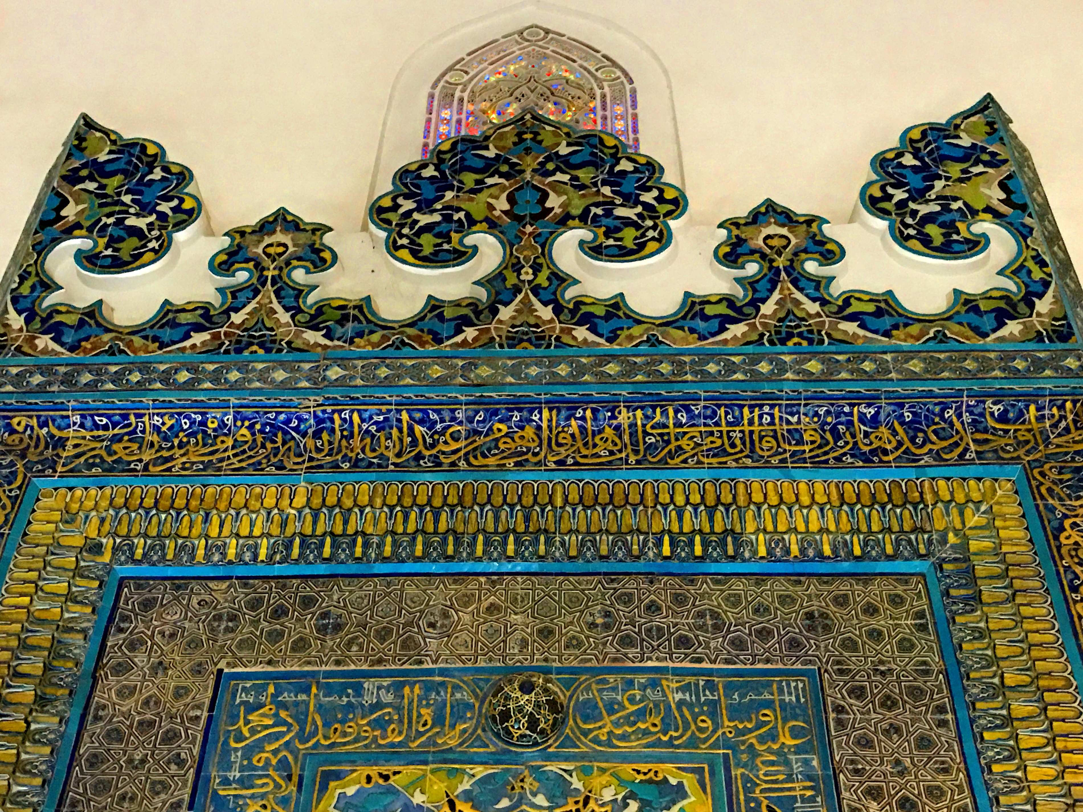 The Green Tomb (Yeşil Türbe) is a mausoleum of the fifth Ottoman Sultan, Mehmed I, in Bursa, Turkey. It was built by Mehmed's son and successor Murad II following the death of the sovereign in 1421. The architect, Hacı Ivaz Pasha designed the tomb and the Yeşil Mosque opposite to it